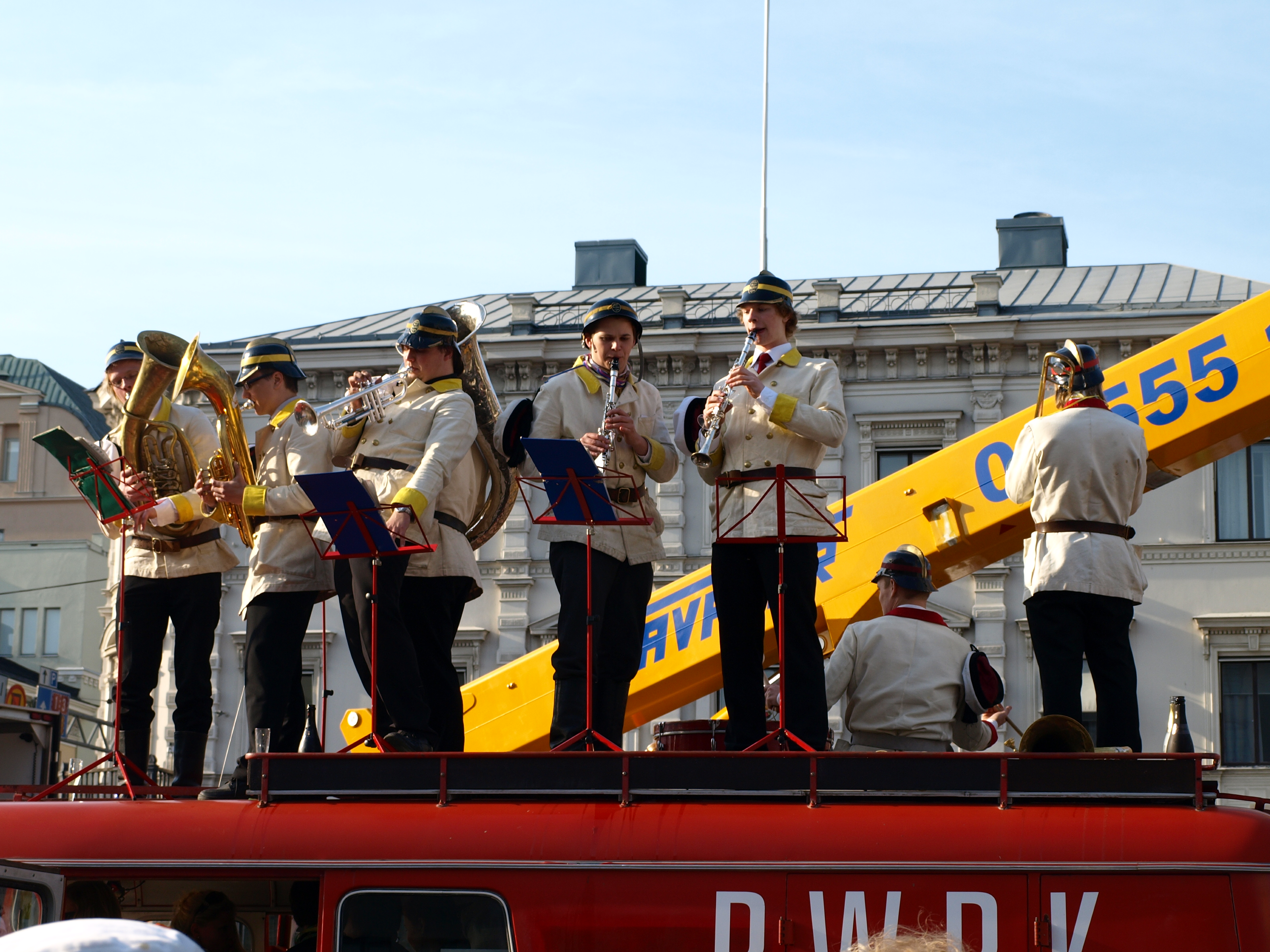 The Retuperän WBK playing while Havis Amanda statue in Helsinki gets her student cap